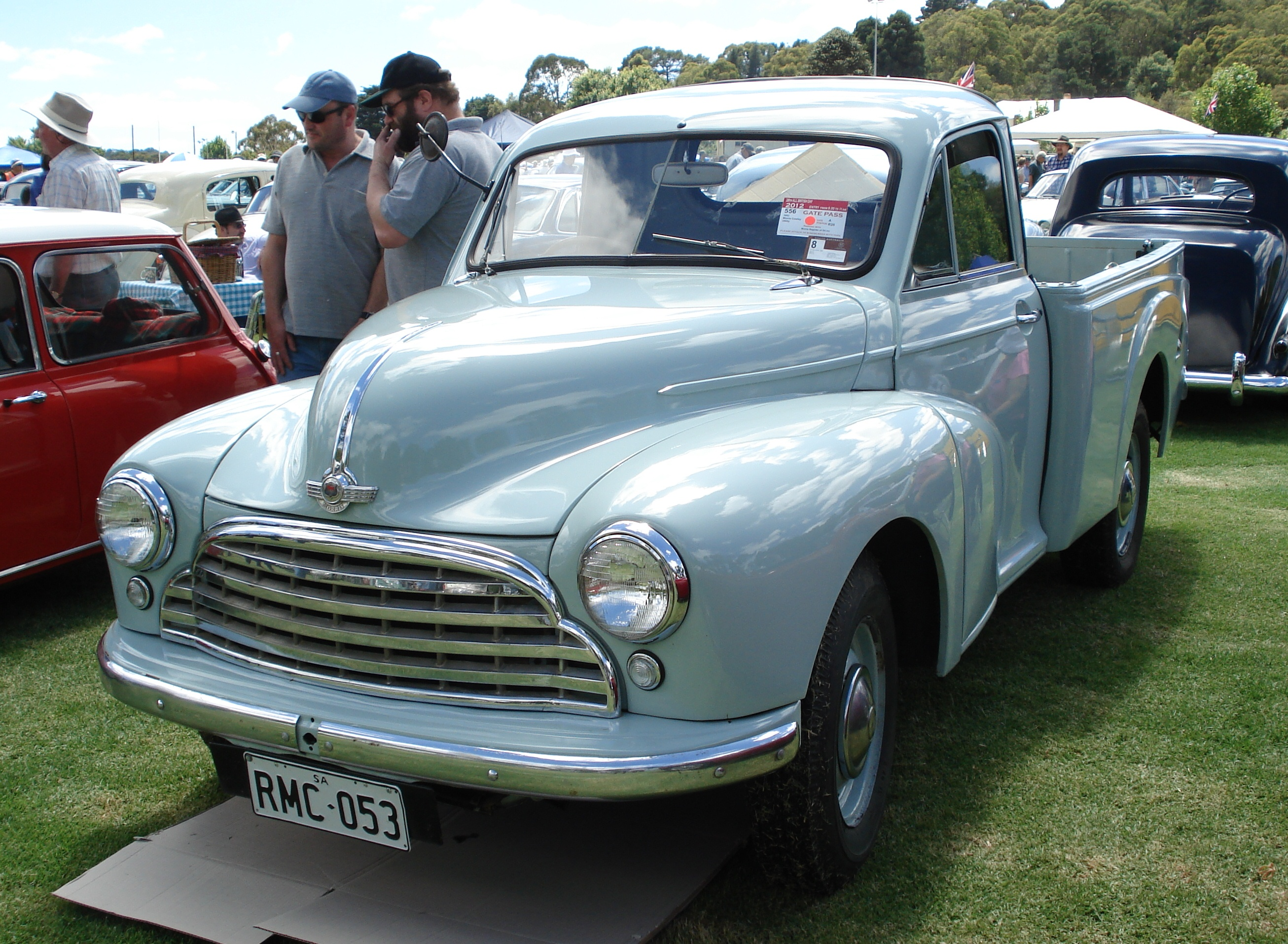 1953 Morris Cowley Utility pictured in Australia. In its home country, the United Kingdom, it would be referred to as a Morris Cowley MCV pick-up.